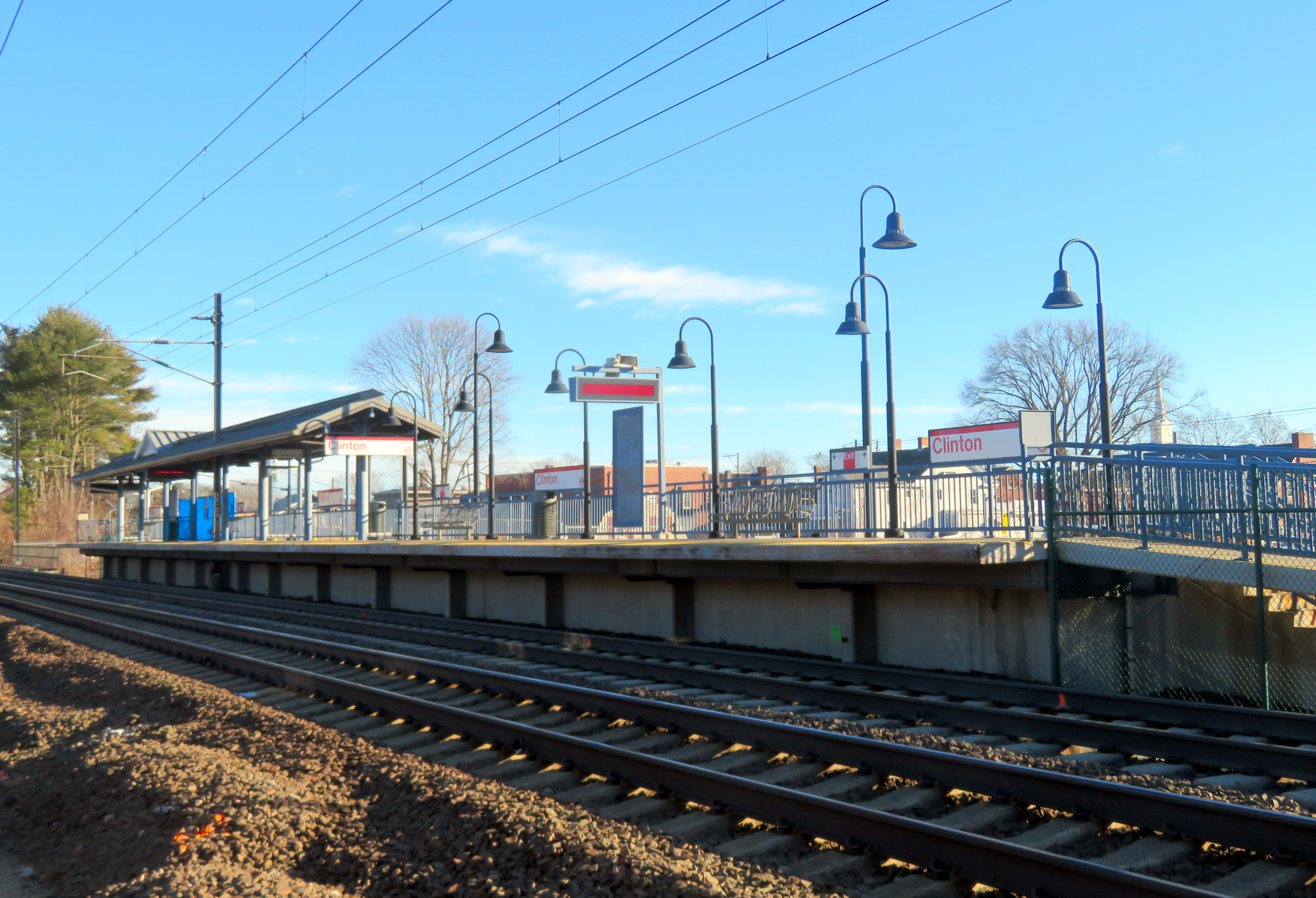 Clinton station in December 2019